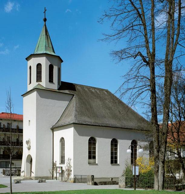 Evang. Kirche von Bad Tölz